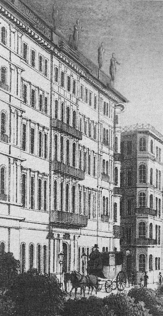 Dresden, Bürgerwiese 17 Ecke Lüttichaustraße Lithographie von 1860